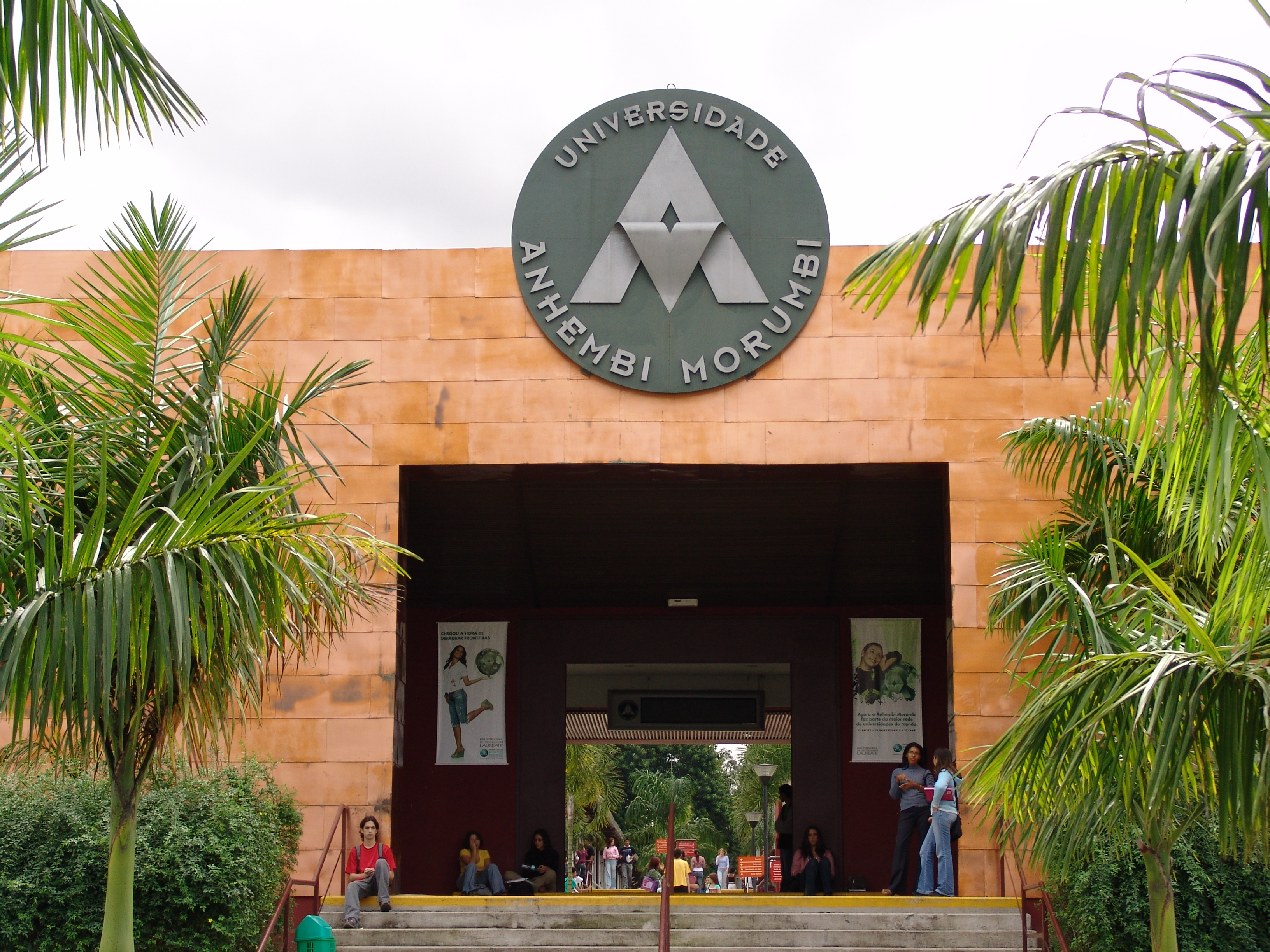 Anhembi Morumbi University front entrance